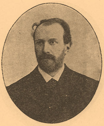 Illustration from Brockhaus and Efron Encyclopedic Dictionary (1890—1907)